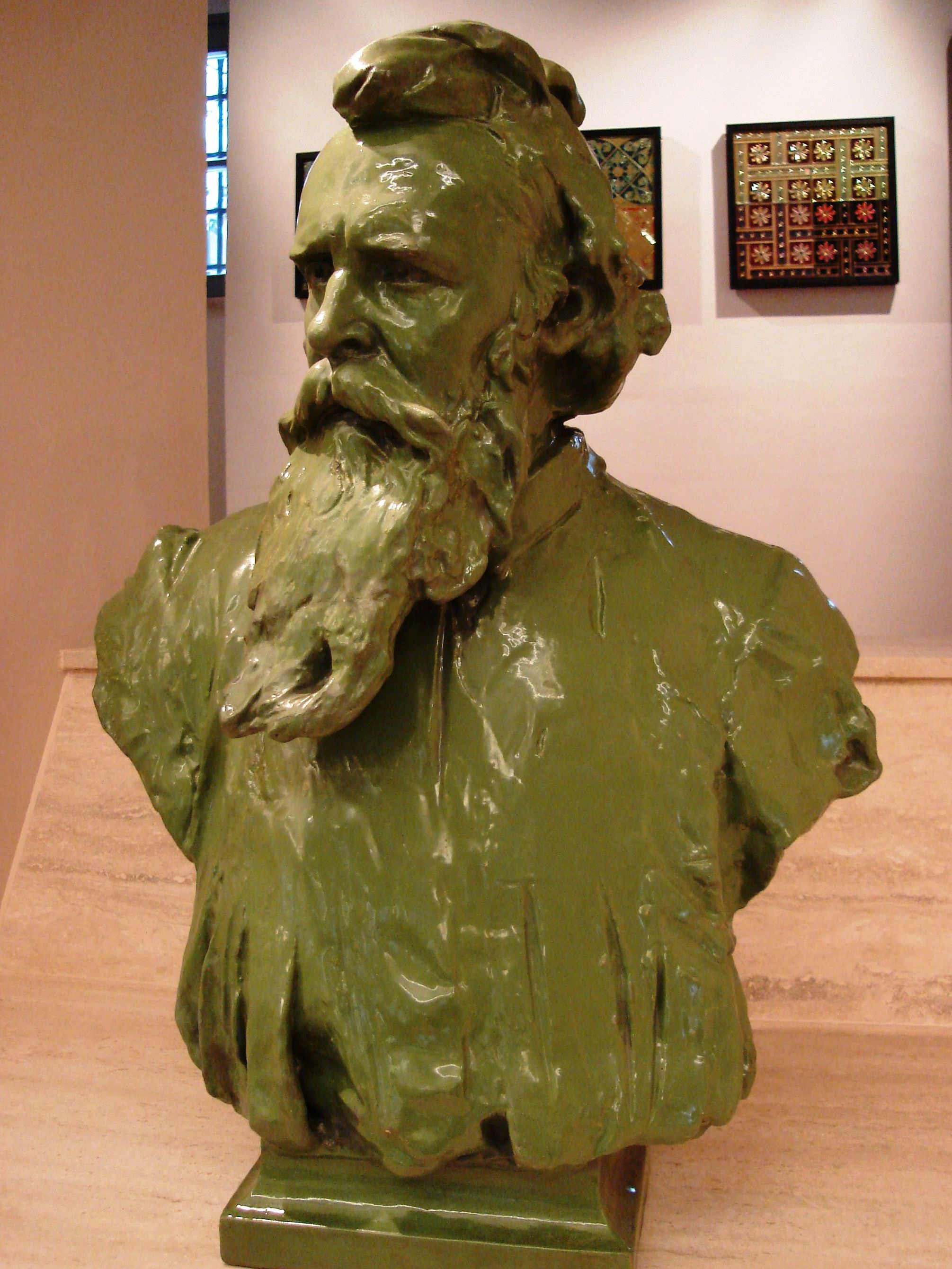 Picture: Faience bust of Vilmos Zsolnay (1828-1900), Hungarian ceramist and china industrialist in the ’Museum Zsolnay’ in Pécs (Hungary). Taken by User: Fekist